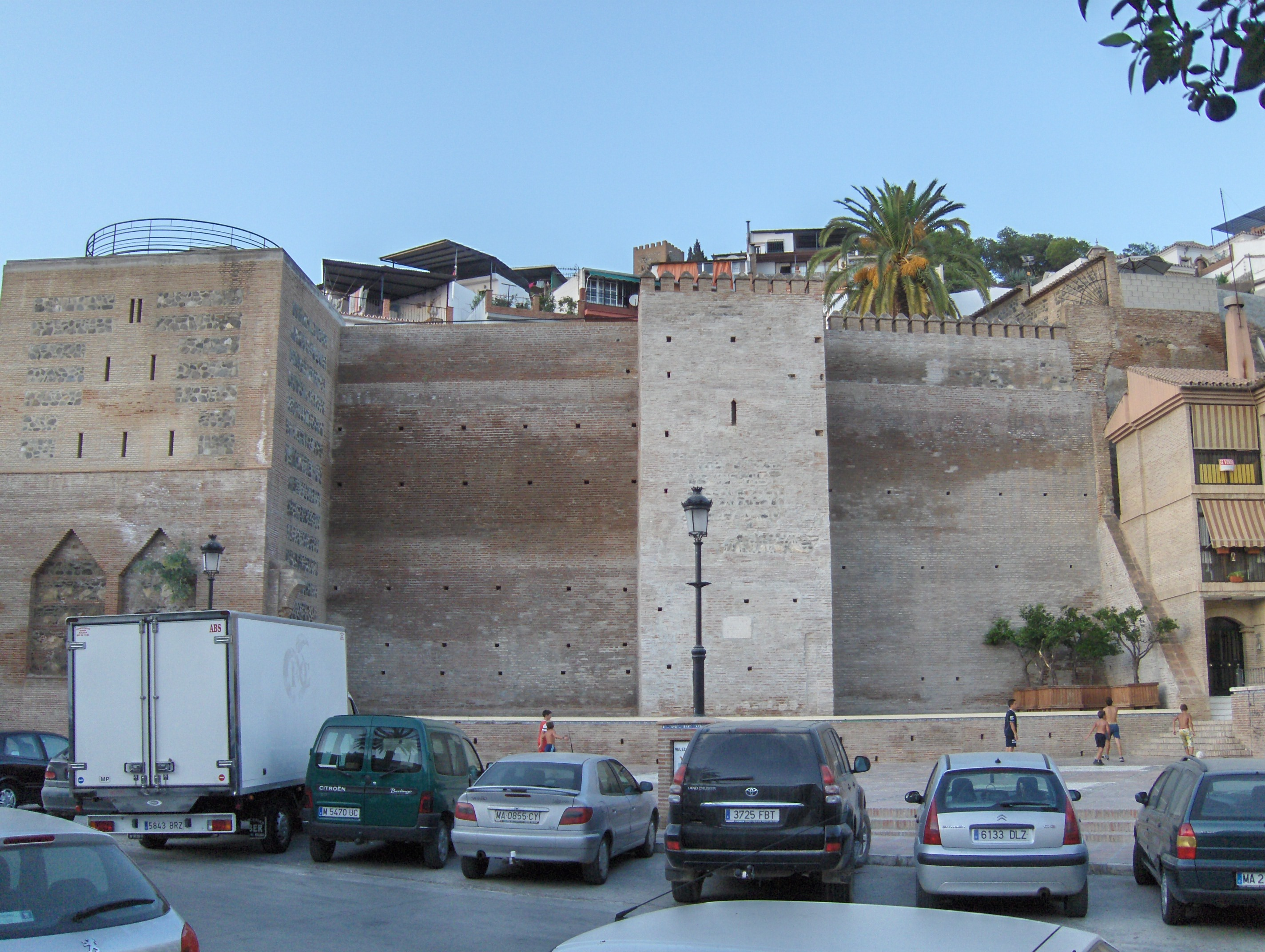 Defensive wall of Vélez-Málaga in plaza de la Constitución, Spain.